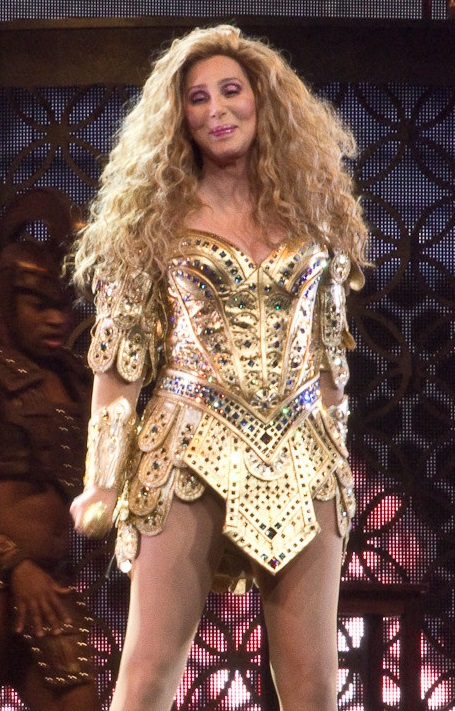 Cher performing live in concert, 2014.